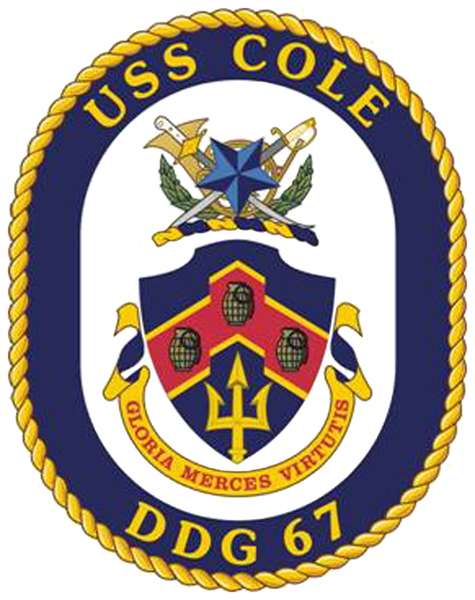 COA of USS Cole (DDG 67)